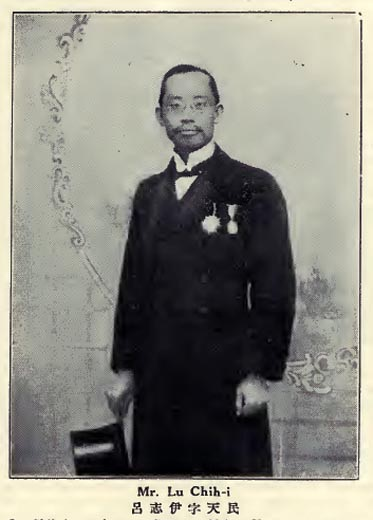 Lü Zhiyi (1881-1940)